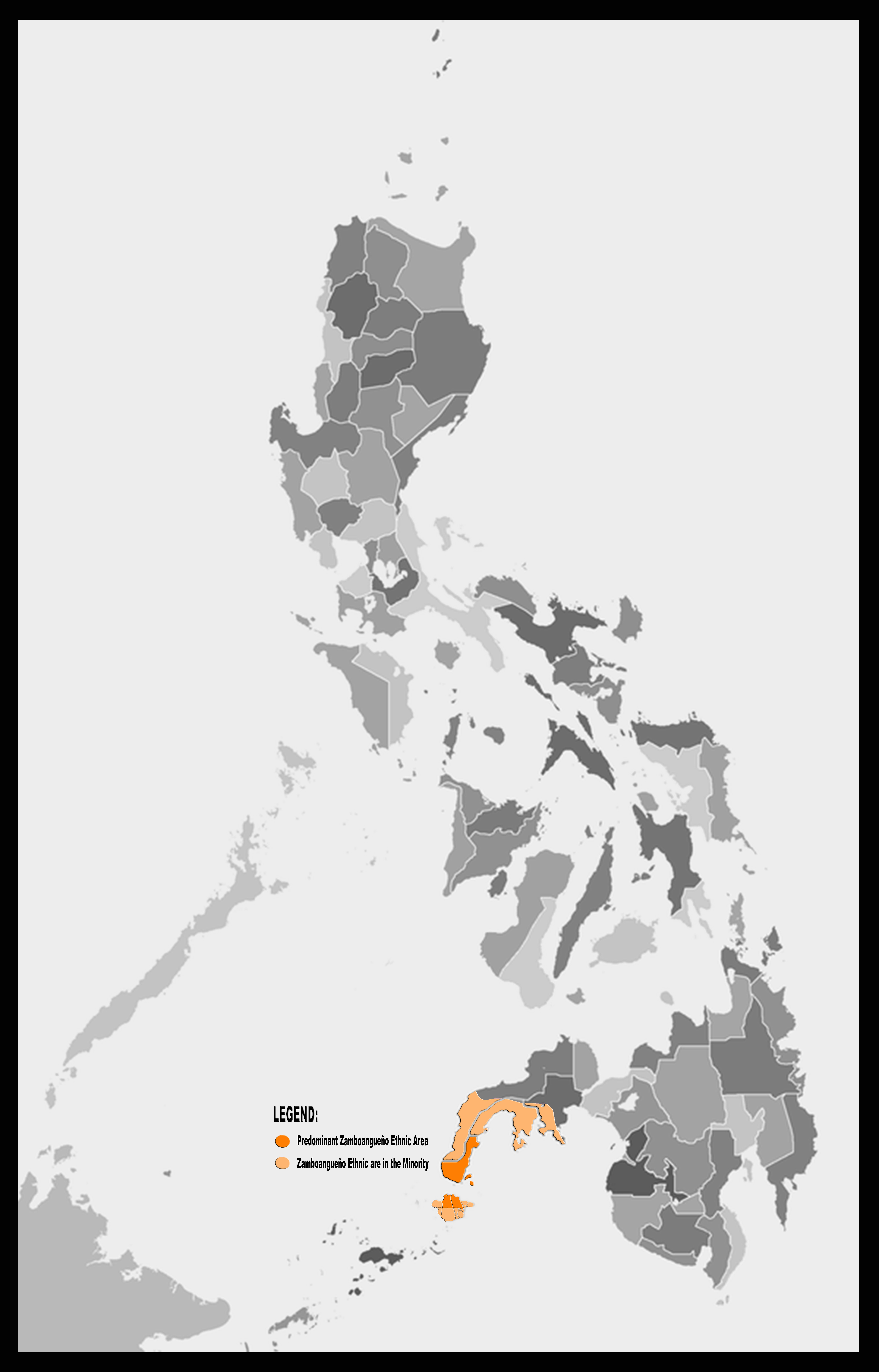 Map